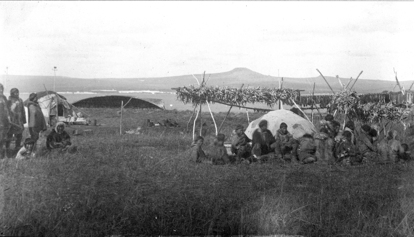 Inuit drying fish at Grantley Harbor. Seward Peninsula region, Alaska. cc 1885.